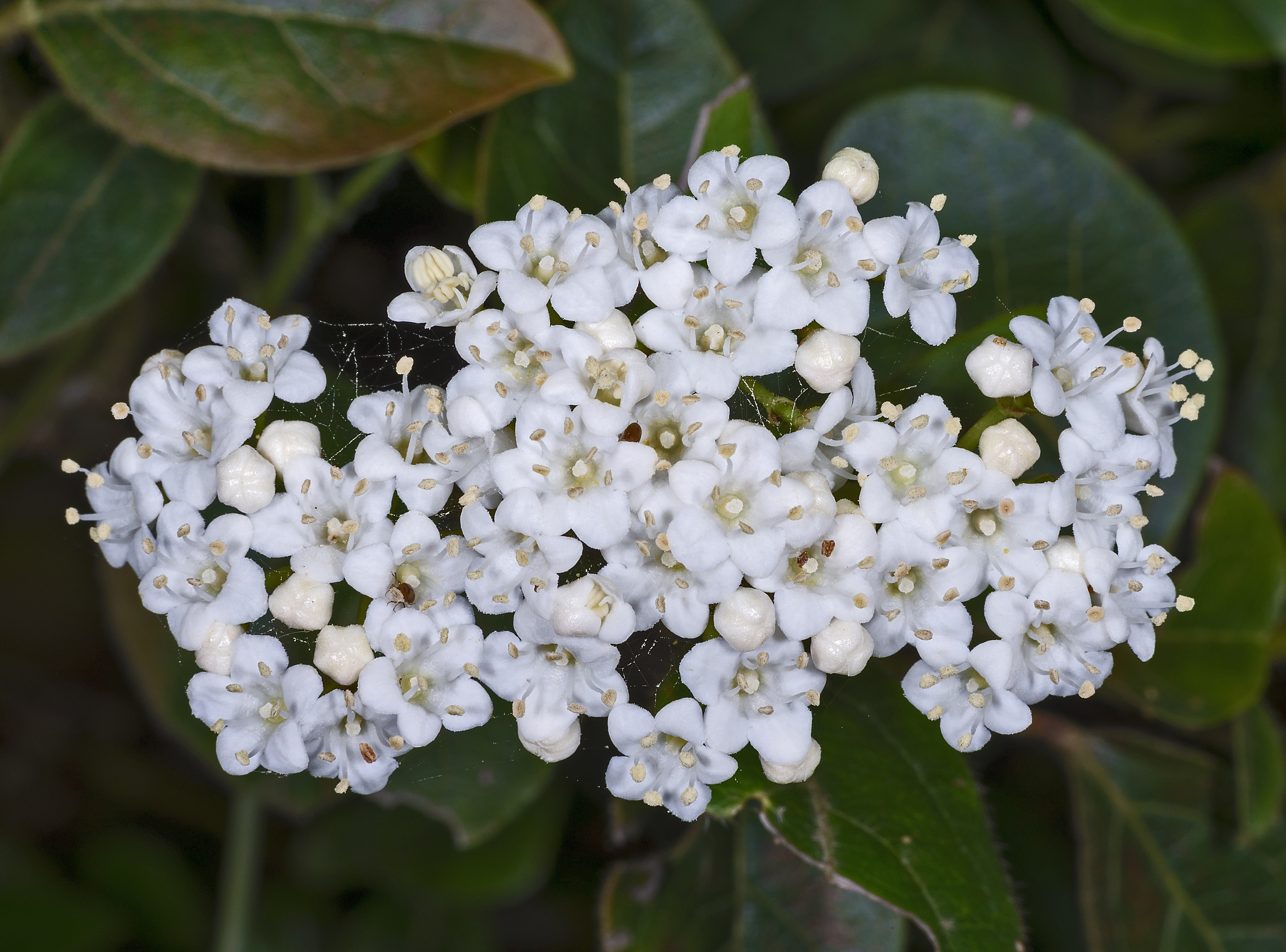 Laurestine, inflorescence